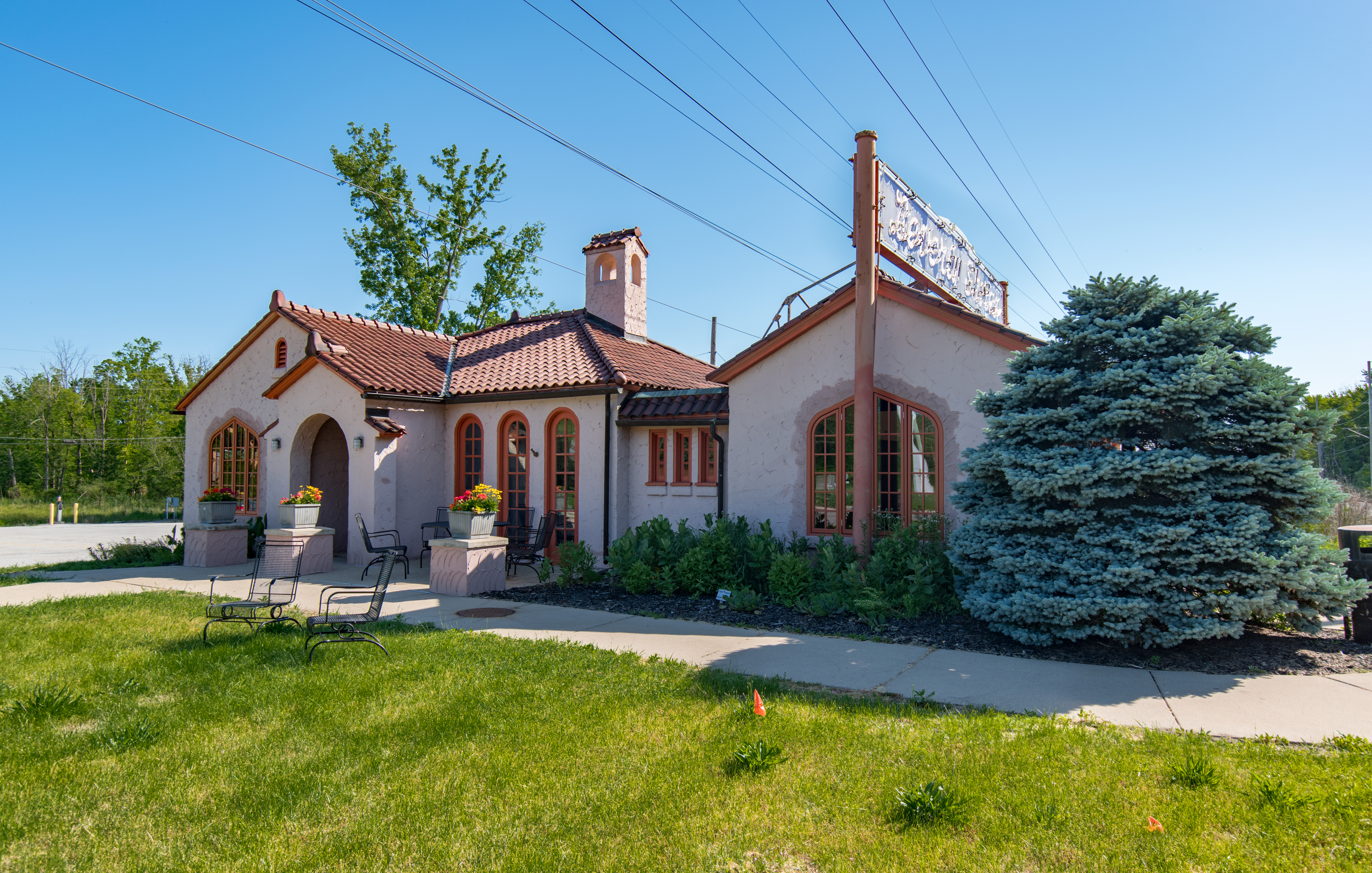 In Beverly Shores, Indiana.